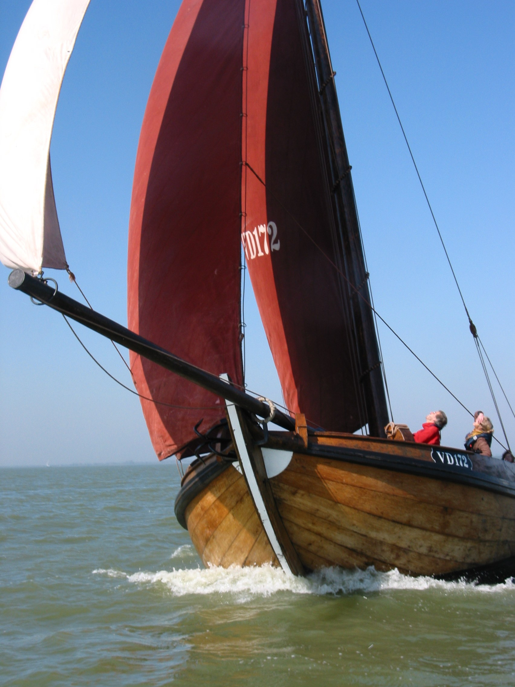 Volendammer Kwak (traditional dutch fishing vessel)